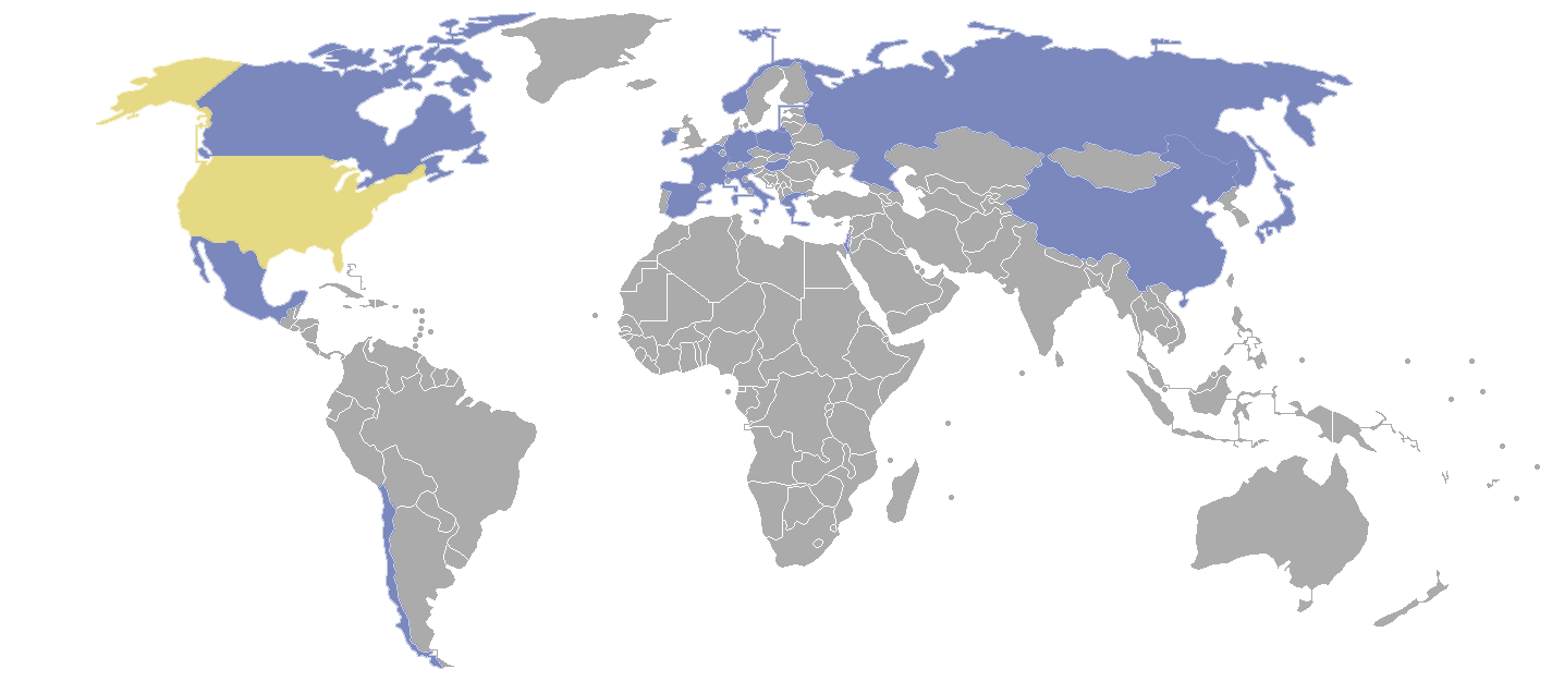 Countries participating in the competition for the Golden Palm 2010 (incl. coproduction countries)